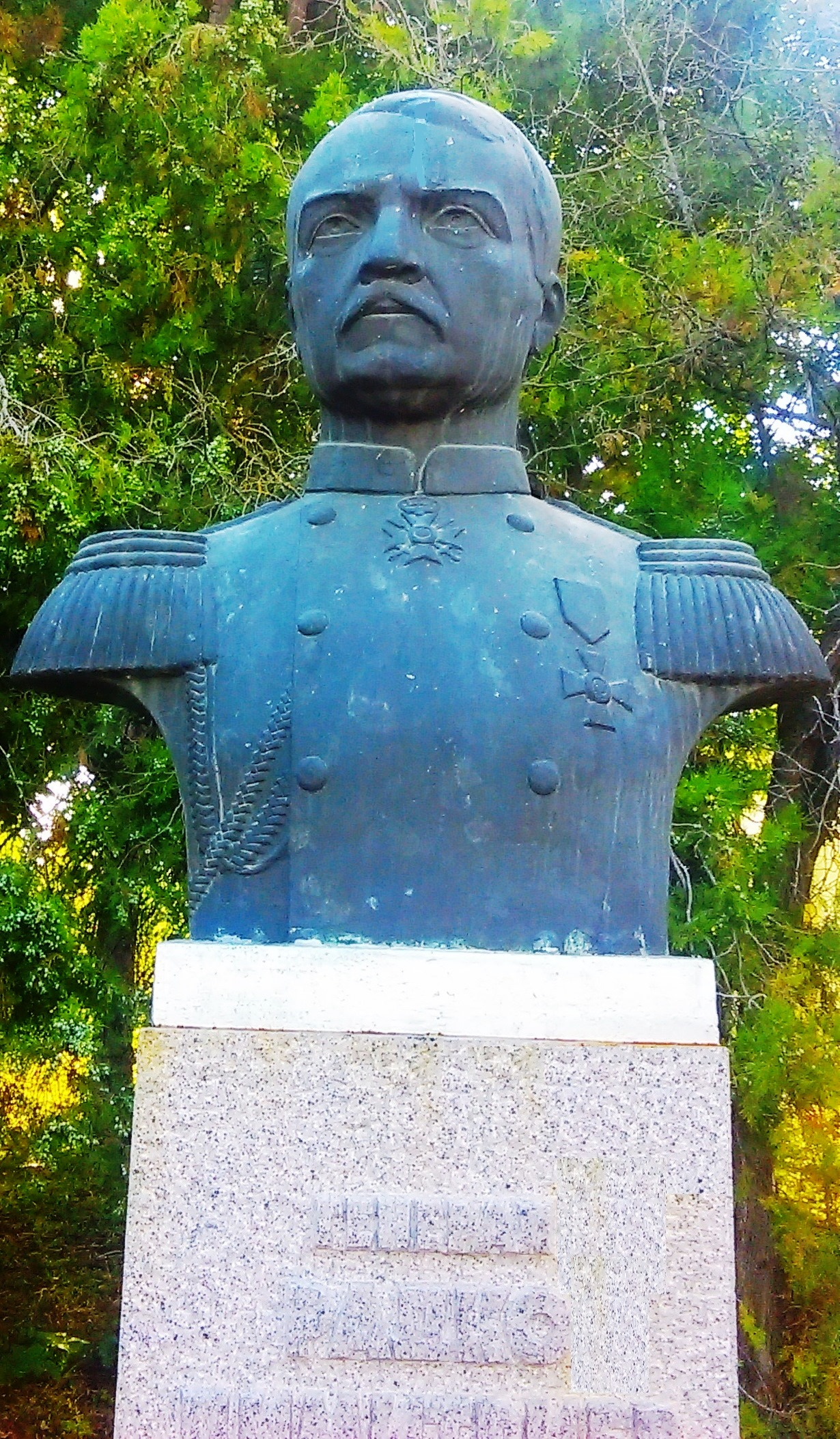 Radko Dimitriev memorial in Radko Dimitrievo, Shumen province, Bulgaria